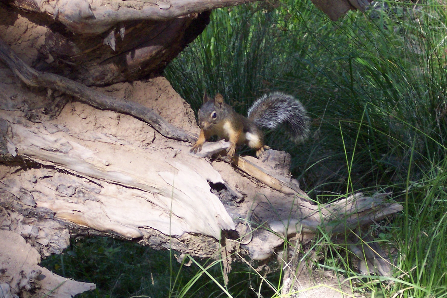 Douglas Squirrel in Sequoia National Park